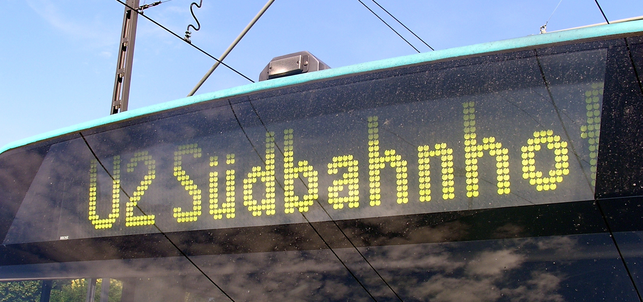 Front display of an U4 car